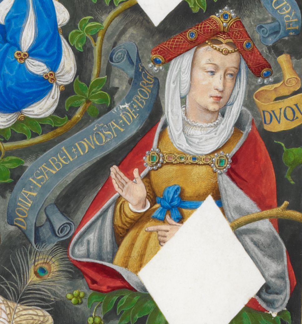 Isabella of Portugal (1397-1471), Duchess of Burgundy.